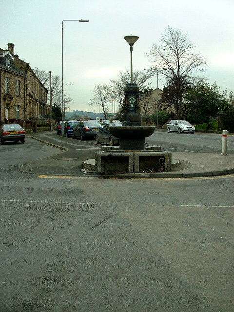 Drinking Well, Junction Savile and Headfield Roads, Savile Town. Running alongside the river Calder which runs parallel to the Savile Road, a town formed by its connections to the Savile family.The Saviles were a powerful and wealthy family with homes at Rufford Abbey in Nottinghamshire and in London, although Thornhill Hall, near Dewsbury, was their chief residence.